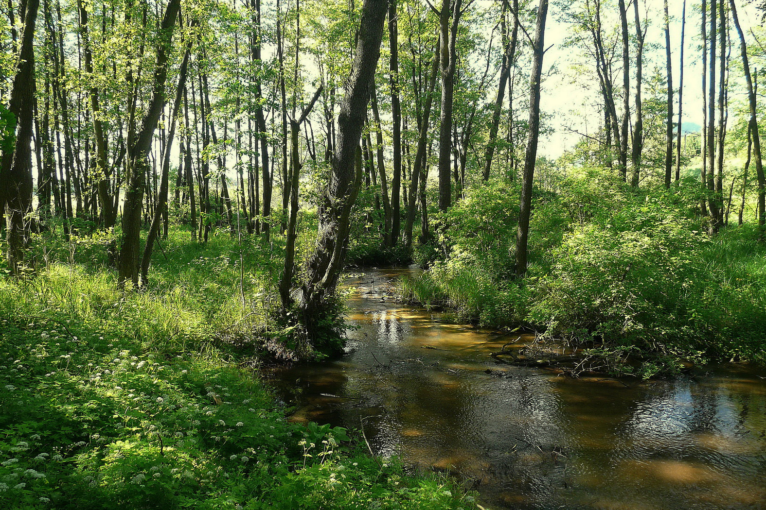 Ploužnický stream in Hvězdov